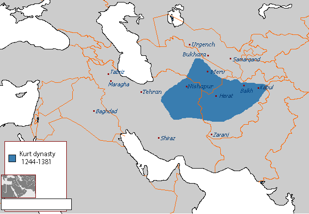 Map of the Kurt/Kartid dynasty.